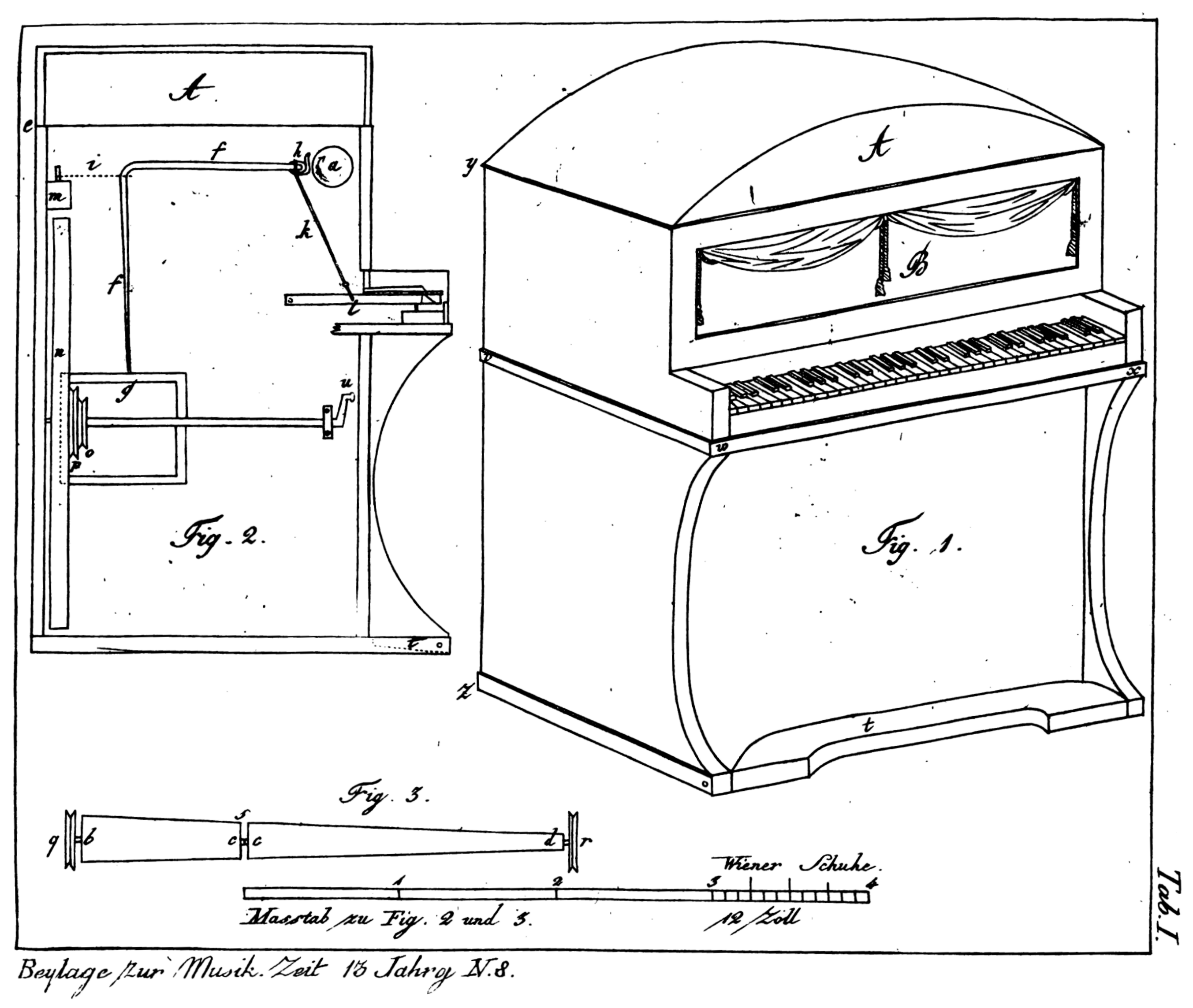 Drawing of Panharmonicon